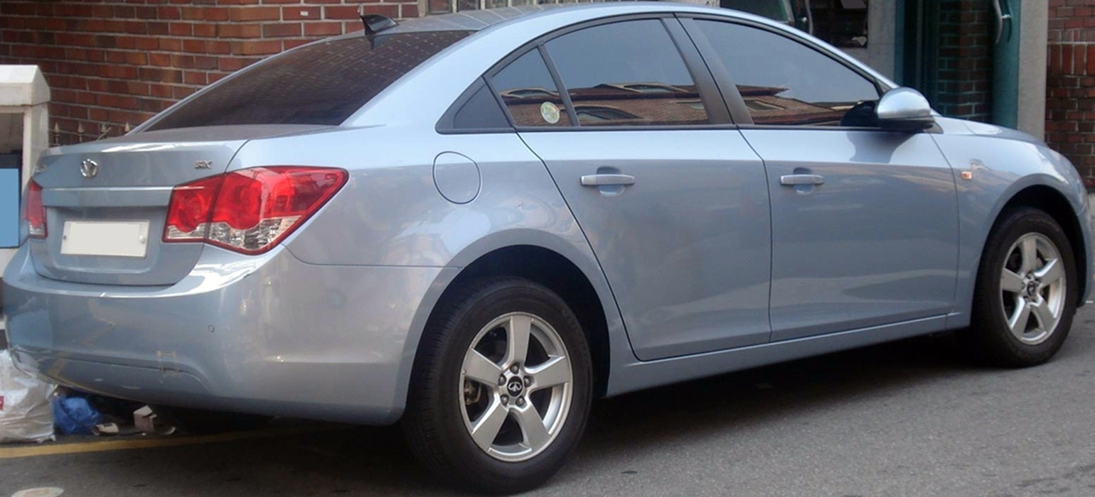 Daewoo Lacetti Premiere